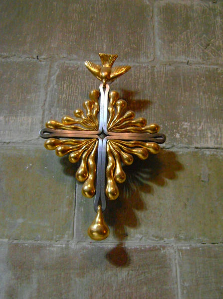 Pentcost cross - created by the jeweler Gilbert Albert - commemorating the 450th anniversary of Reformation in Geneva. Cathedral St-Peter, Geneva.